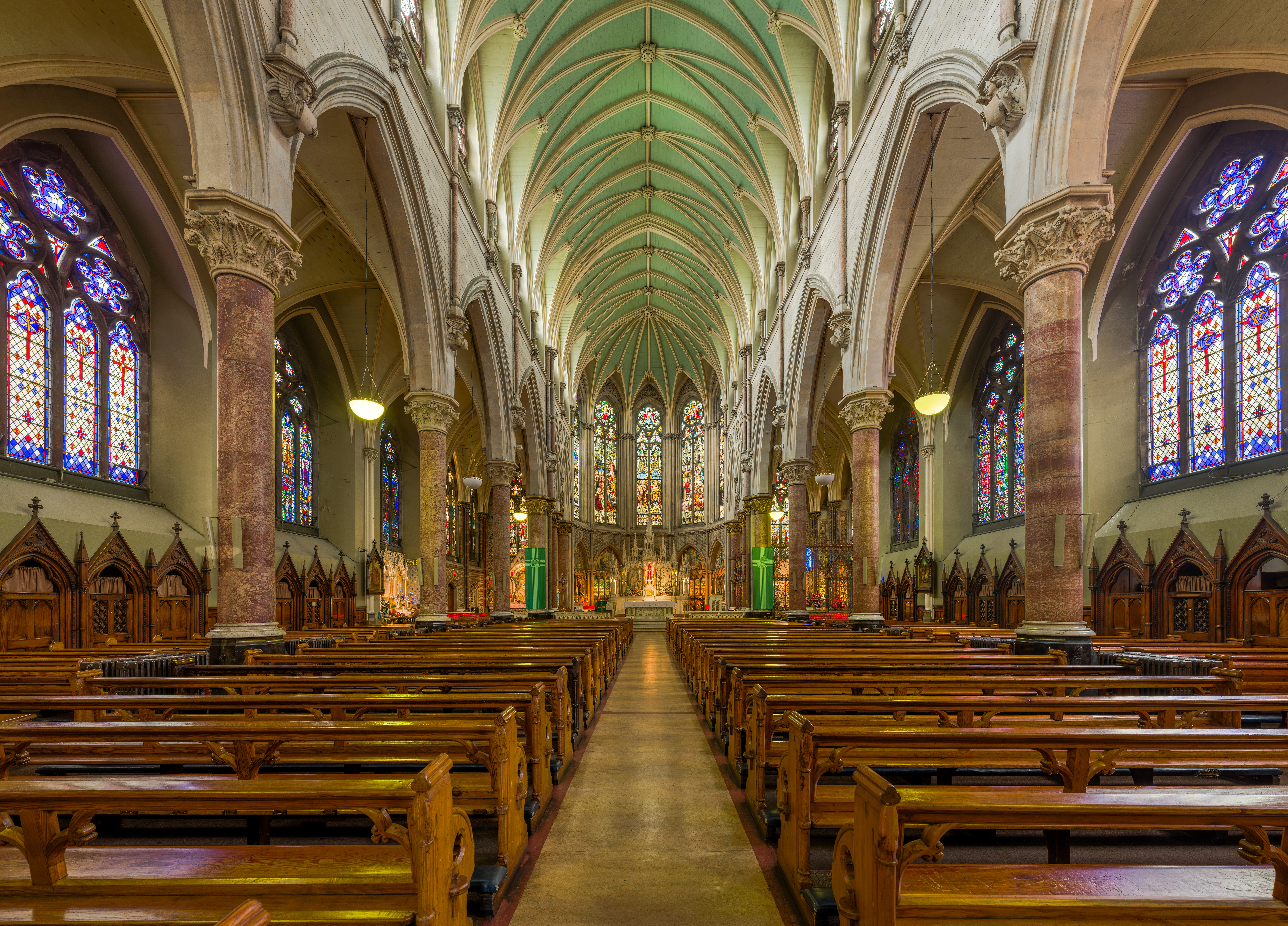 The interior of John's Lane Church in Dublin, Ireland.